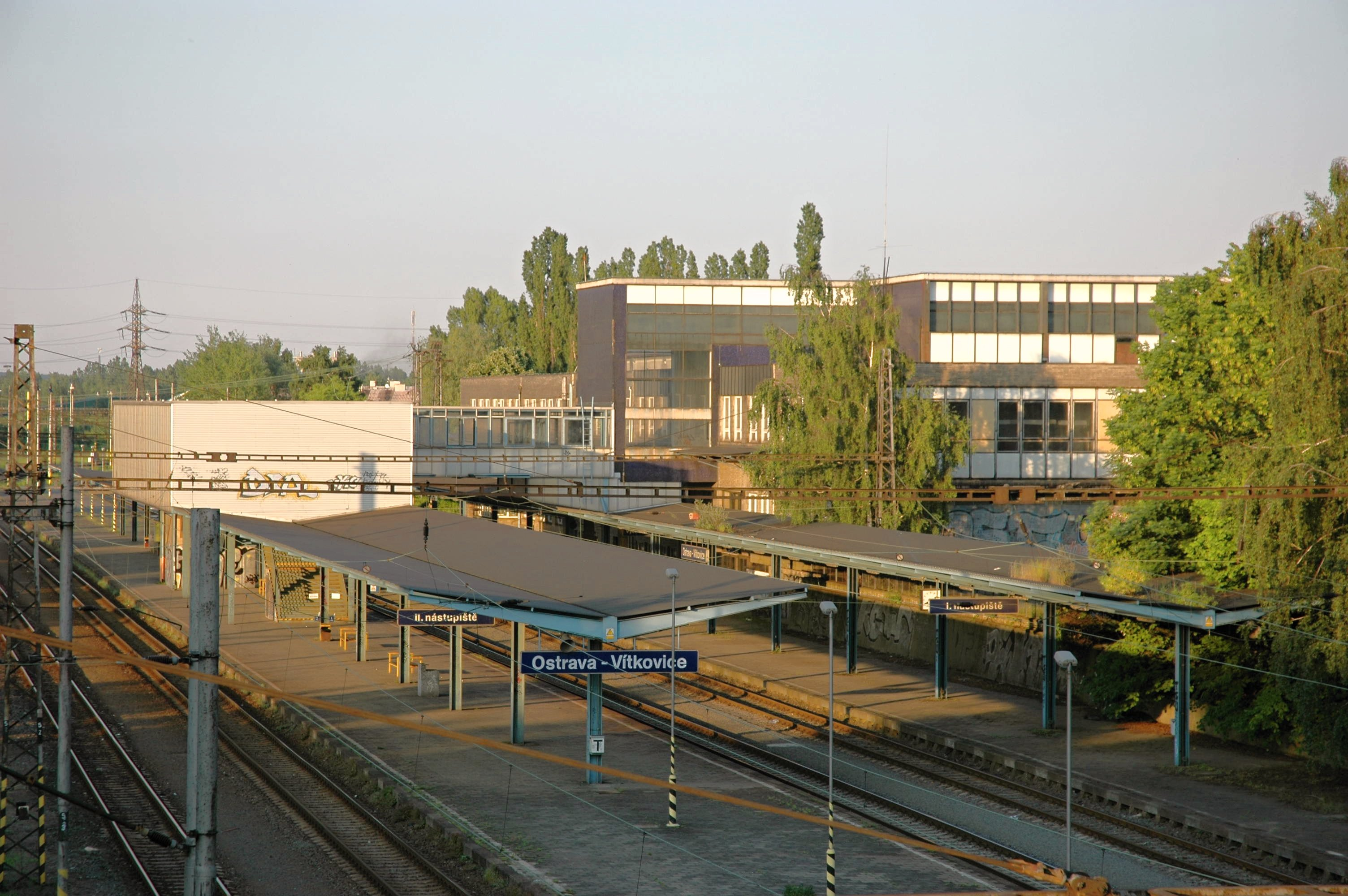 Ostrava-Vítkovice railway station, the Czech Republic